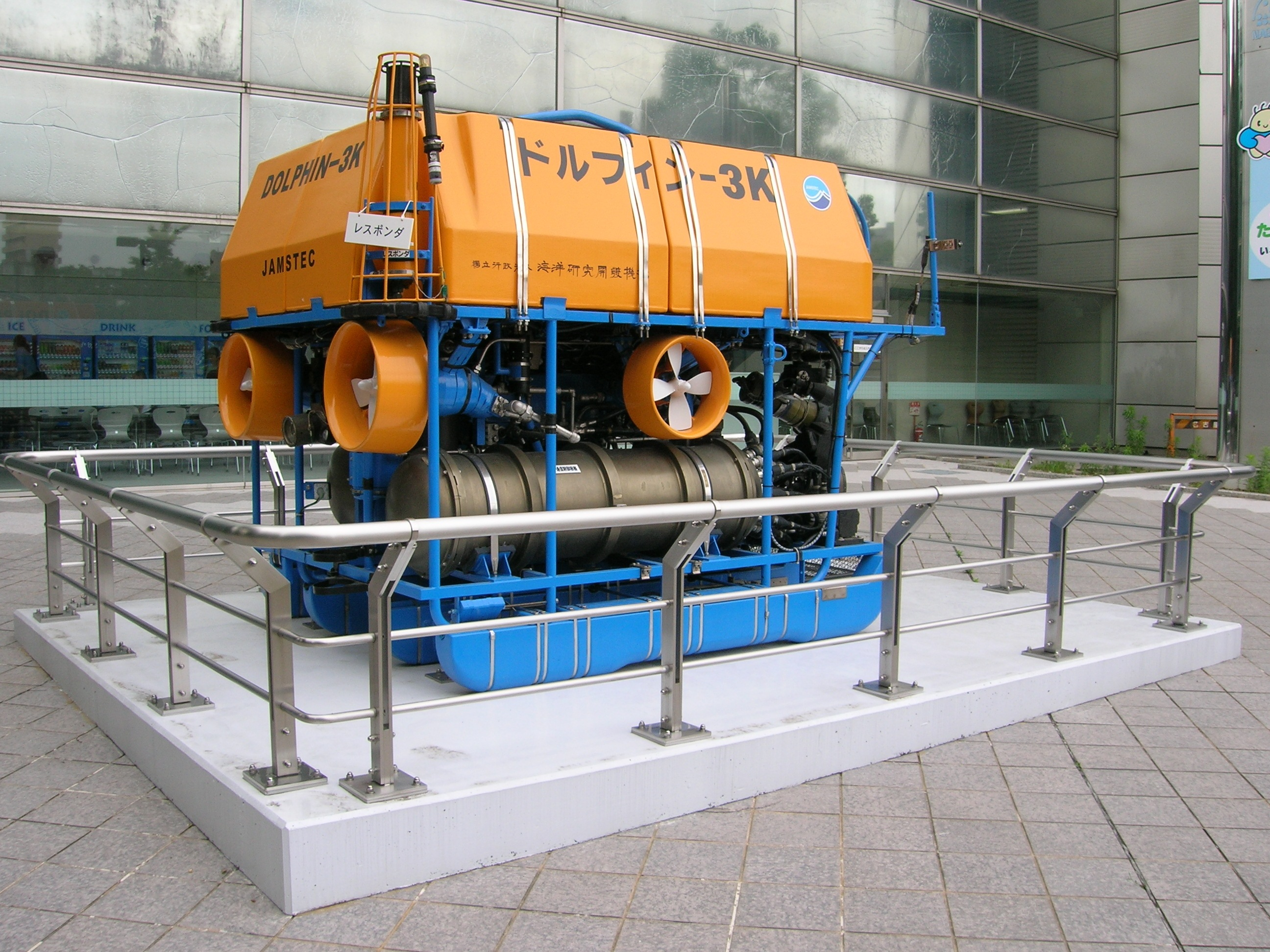 JAMSTEC DOLPHIN-3K ROV. Loc: Nagoya City Science Museum (Naka-ku, Nagoya city, Aichi prefecture, Japan.)